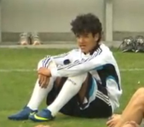 Alipio training with the Castilla